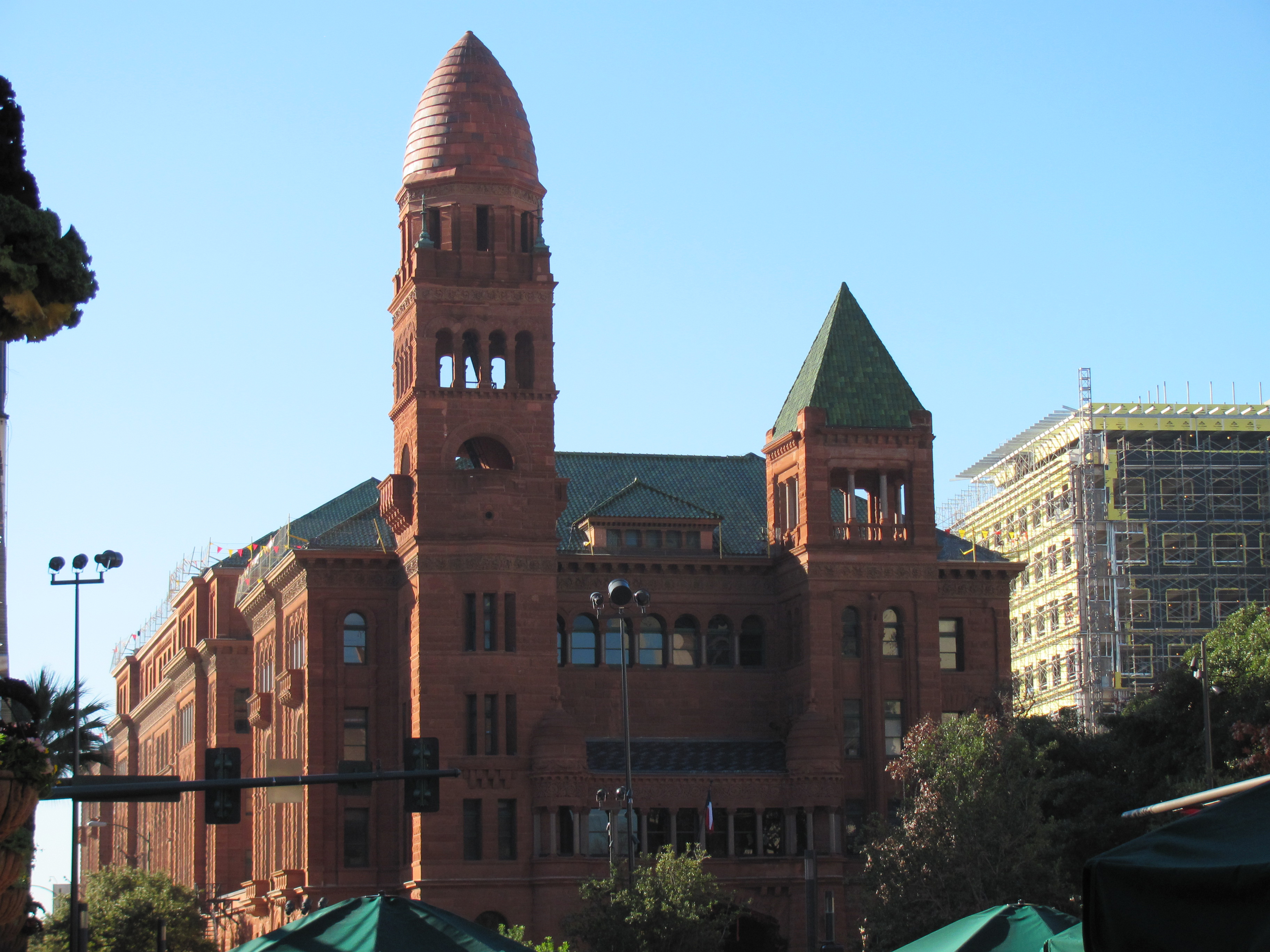 The Bexar County Courthouse in San Antonio, TX. Taken from nearby Main Plaza.